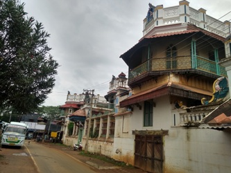 Aththangudi Palace, Atthangudi, Sivaganga district, Tamil Nadu, India